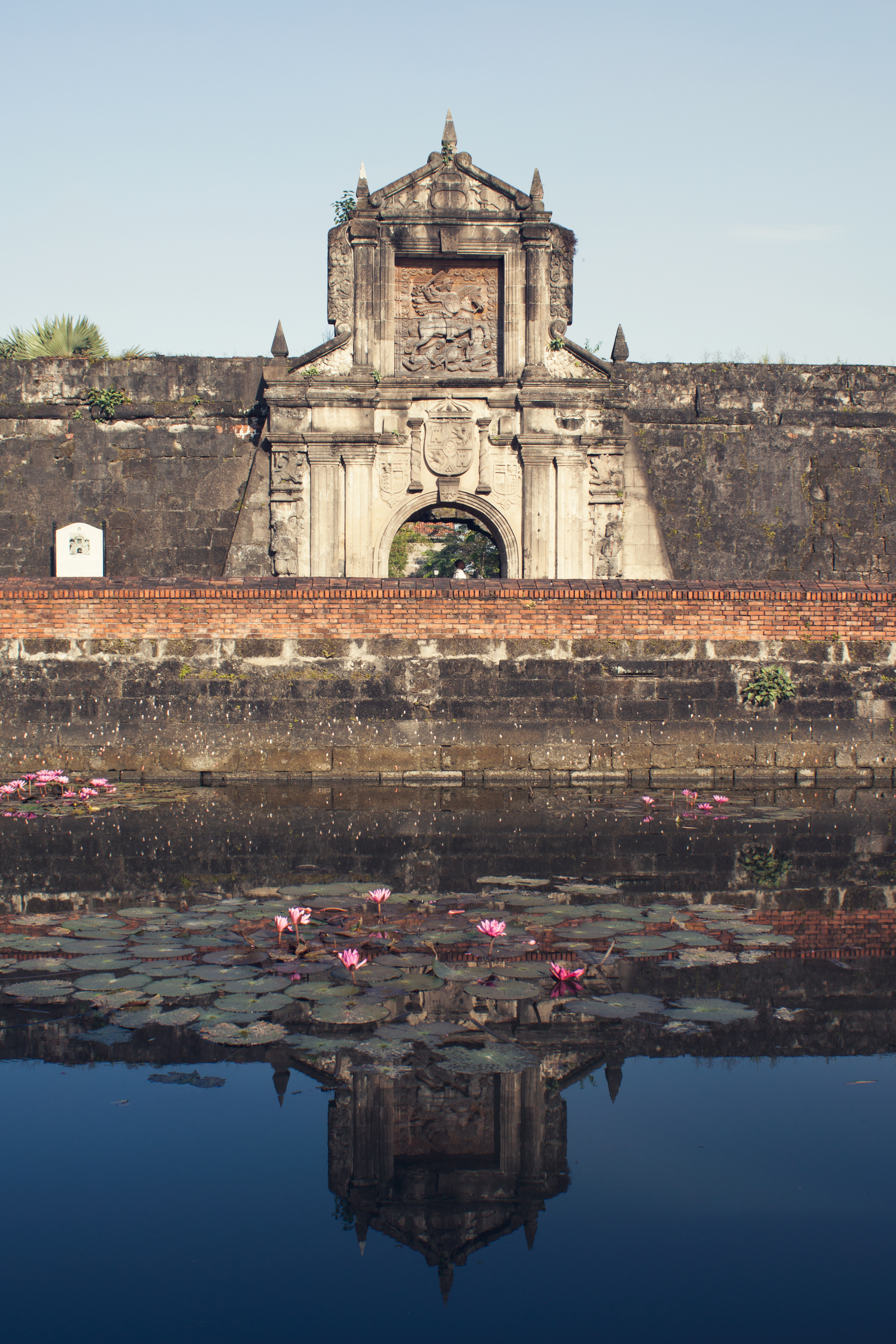 The original Manila, where a Muslim settlement that was ruled by a Sultan, is where Fort Santiago stands today.